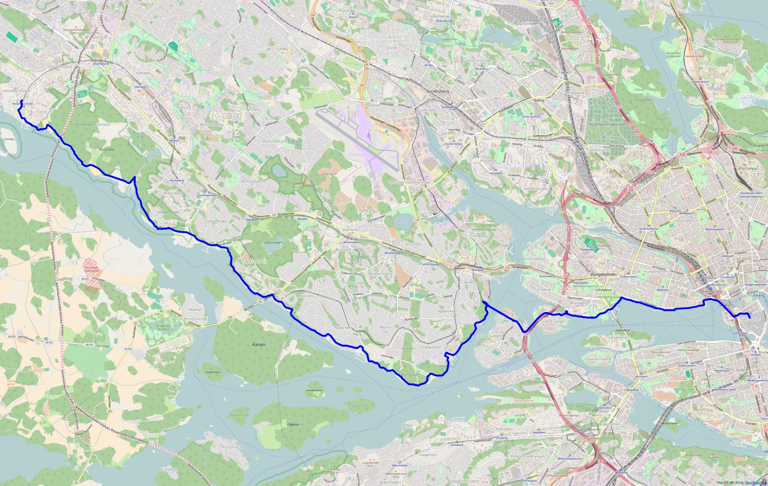 The Hässelbystråket hiking trail in Stockholm, Sweden.